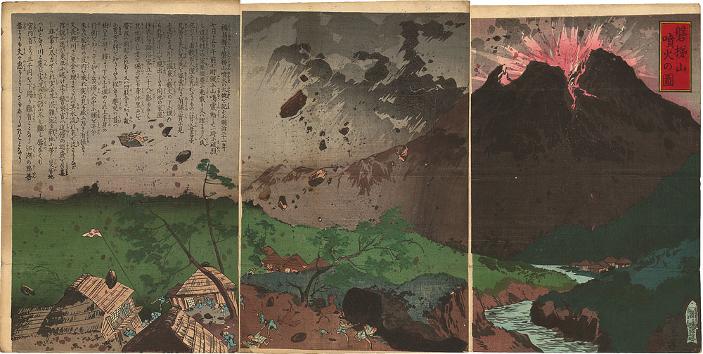 Ukiyoe depicting 1888 Eruption of Mount Bandai, Japan. February 8, 1888